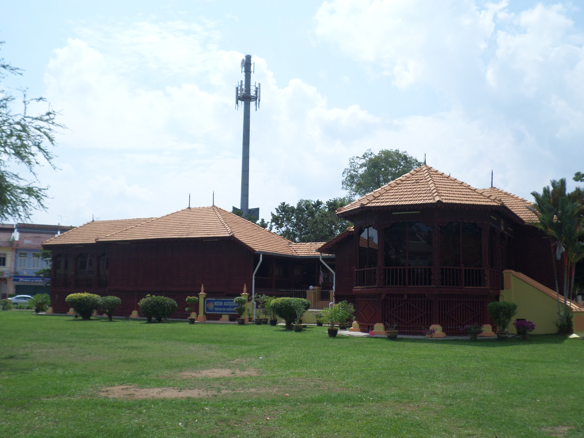 Tradition and Custom Museum, Alor Gajah, Melaka, MalaysiaBahasa Melayu: Muzium Adat Istiadat, Alor Gajah, Melaka, Malaysia